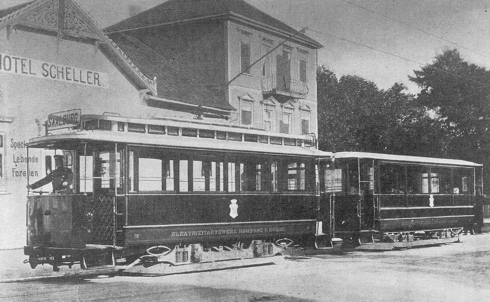 Bad Homburg Tramway in Dornholzhausen near Bad Homburg, Germany, 1900